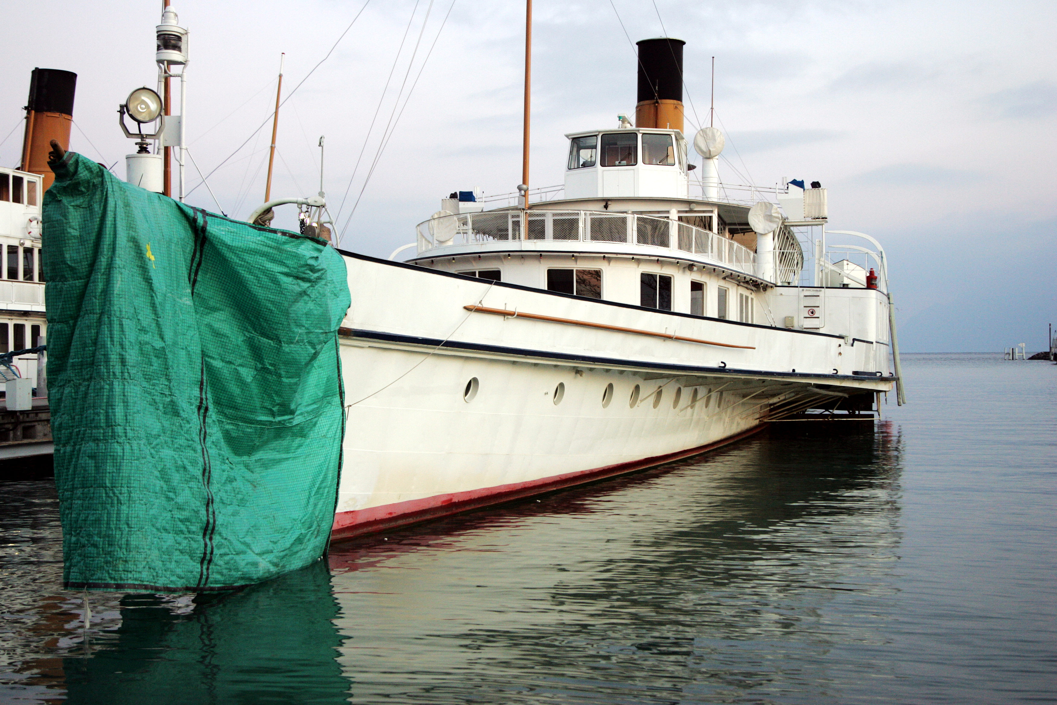 Ships of the Compagnie Générale de Navigation sur le lac Léman moored in Lausanne.